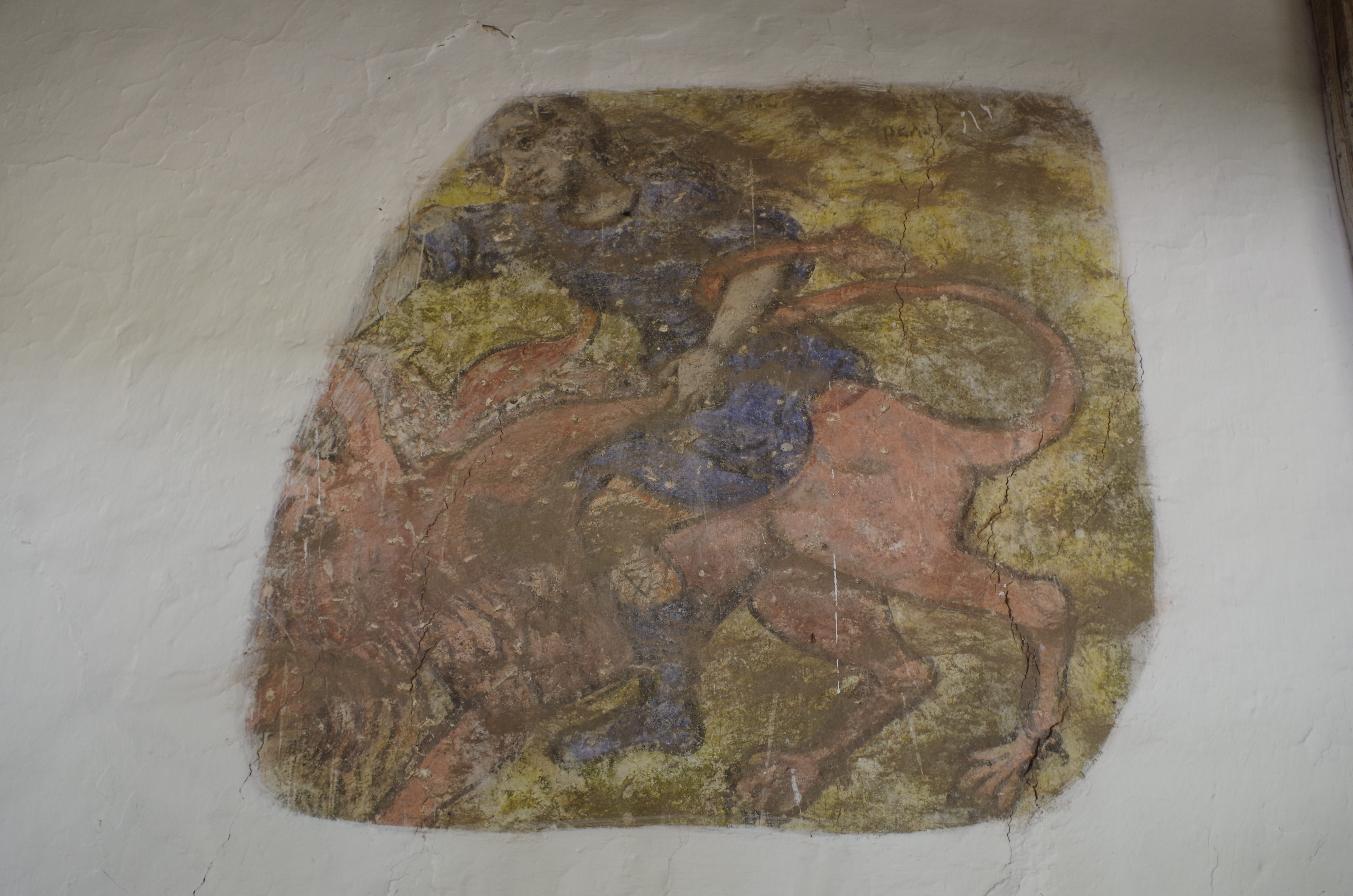 Fresco above an opening door of St. Michael the Archangel Church in the village of Resava